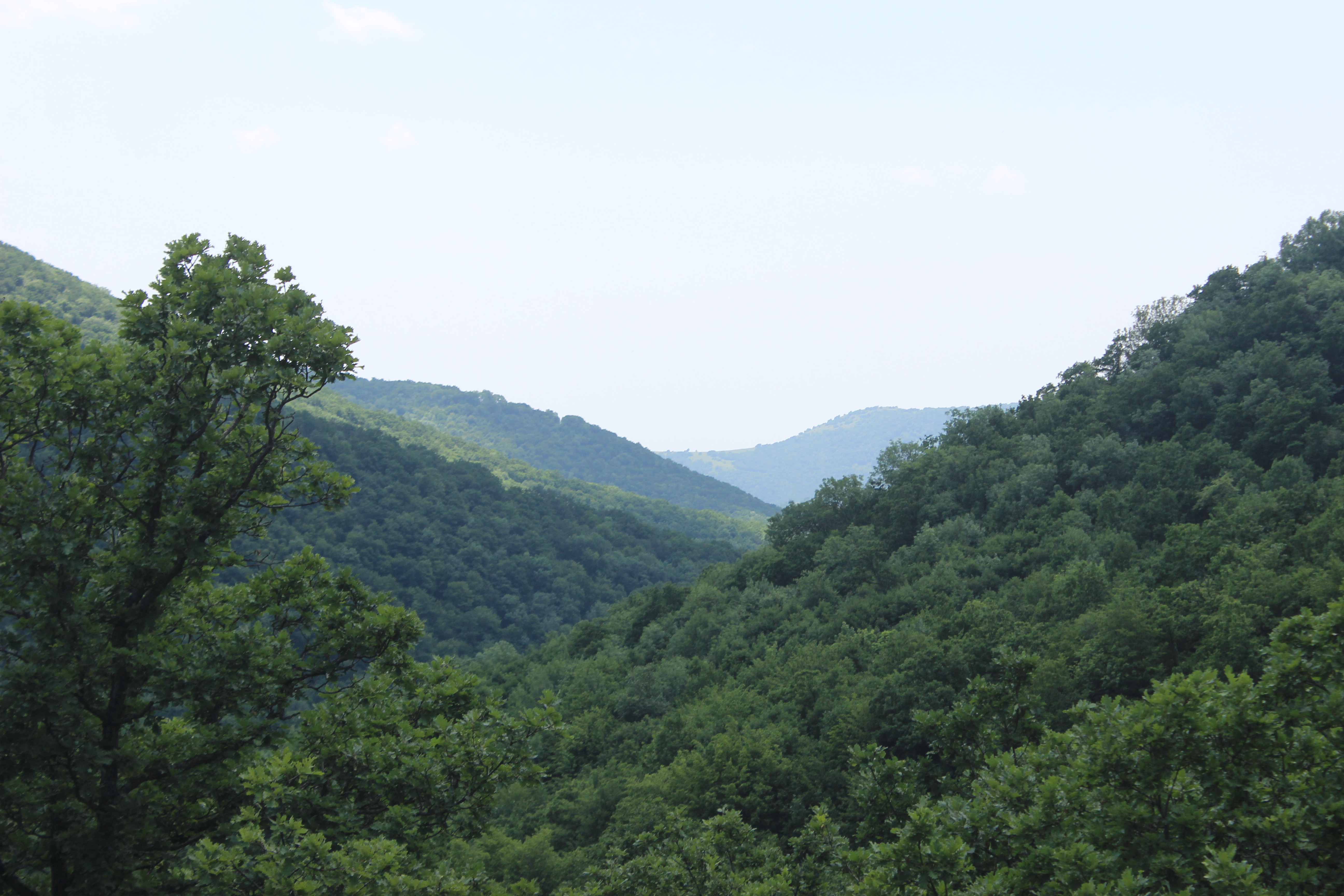 Arzakan-Meghradzor Sanctuary flora.